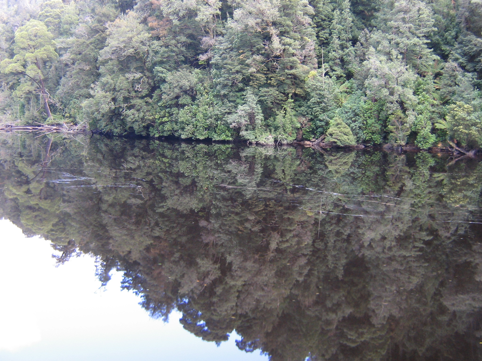 Gordon River in Tasmania near its mouth into Macquarie Harbour. The water is stained by tannin absorbed from button grass in the catchment, leading to a dark surface which reflects the surrounding forest.